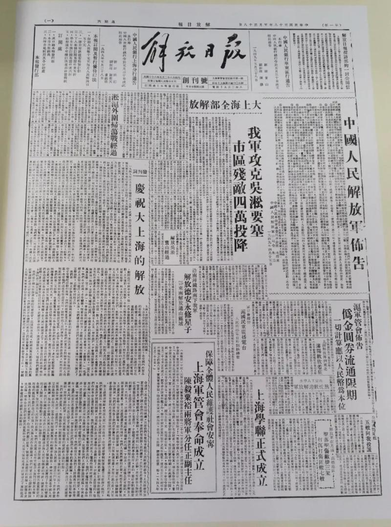 The front page of the first issue of Jiefang Daily, published in Shanghai on May 28, 1949. 中文（中国大陆）: 1949年5月28日上海《解放日报》创刊号头版